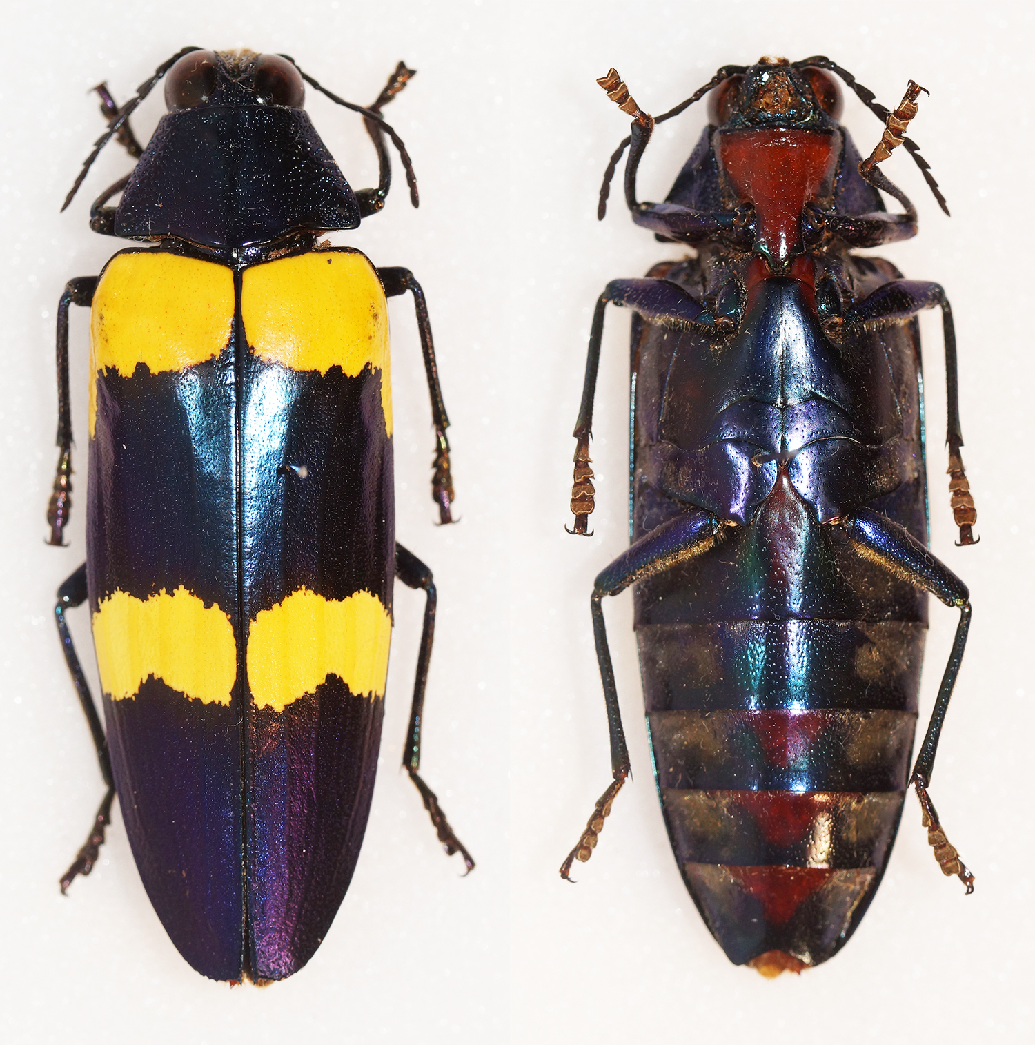 Buprestidae